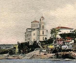 Greek Cathedral Trabzon